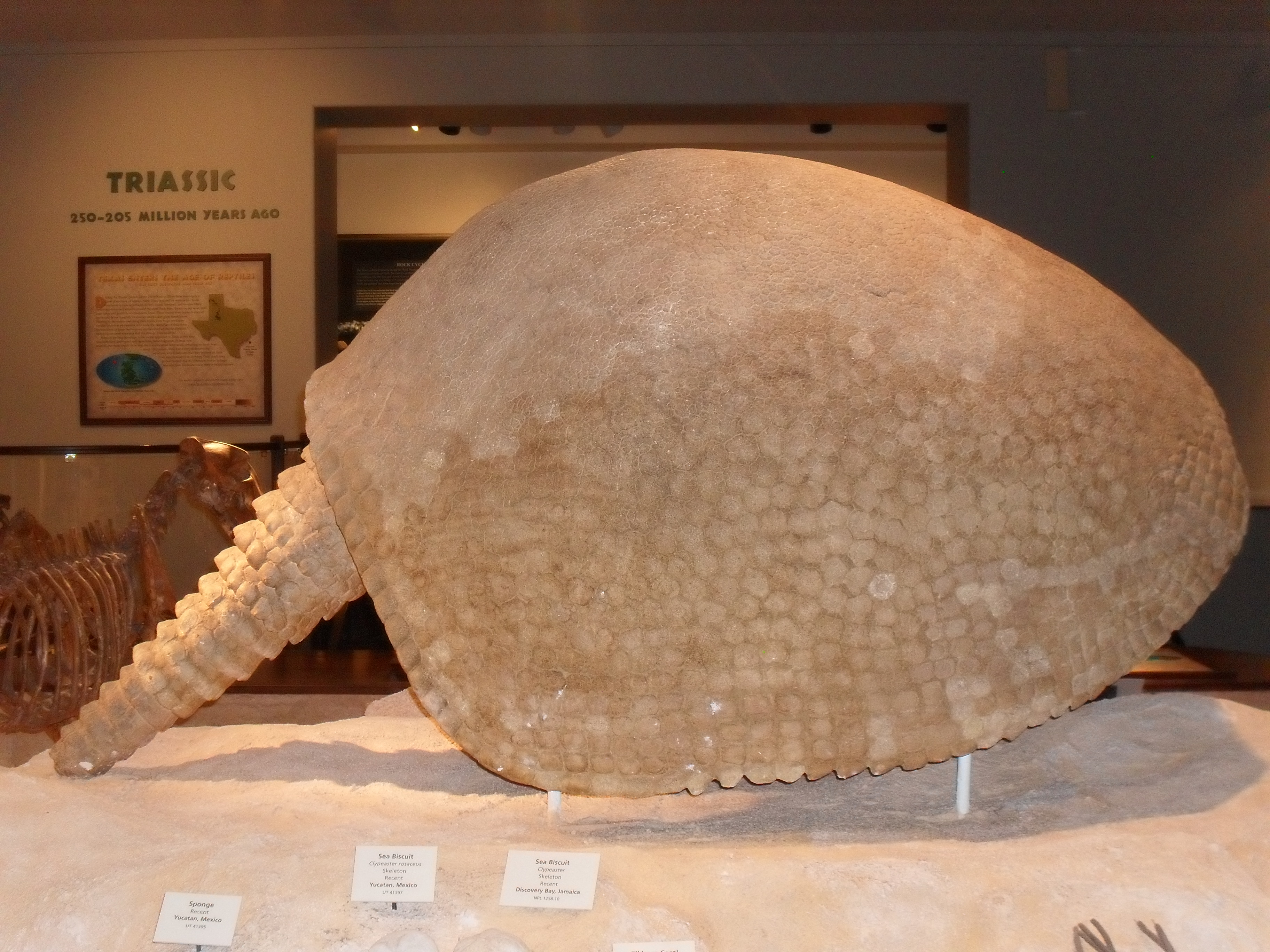 Austin Zoo